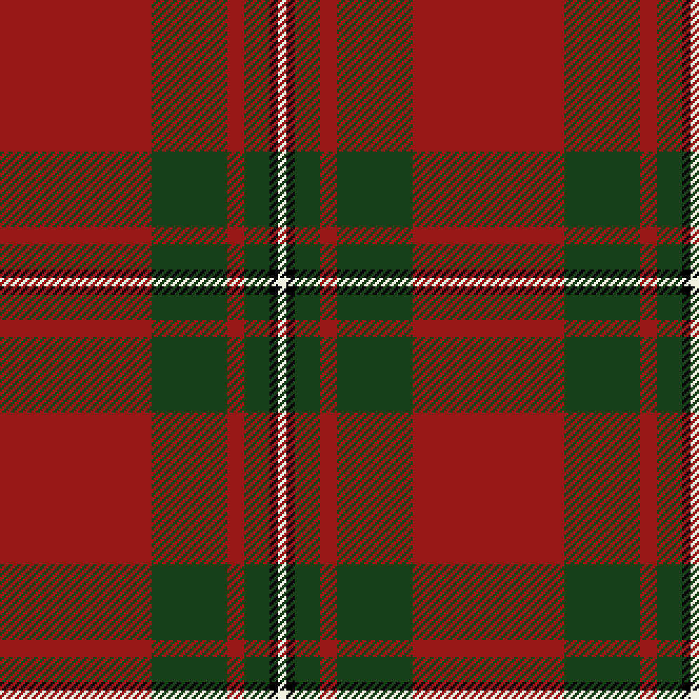 A digital representation of the MacGregor Red and Green tartan. The thread count used for this image was red-72, green-36, red-8, green-12, black-2, white-2.